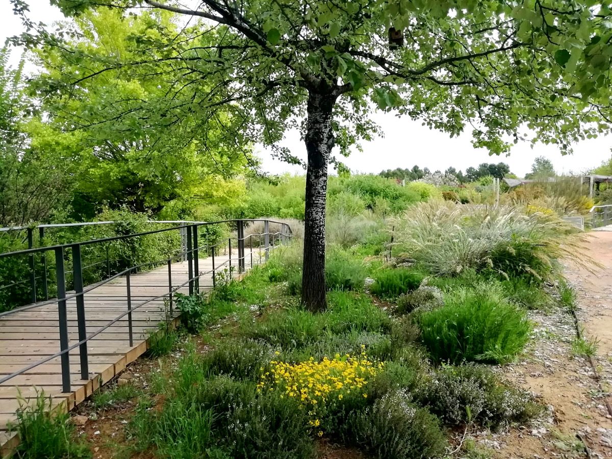 Vista del interior de uno de los hábitats castellano-manchegos recreados en el JBCLM